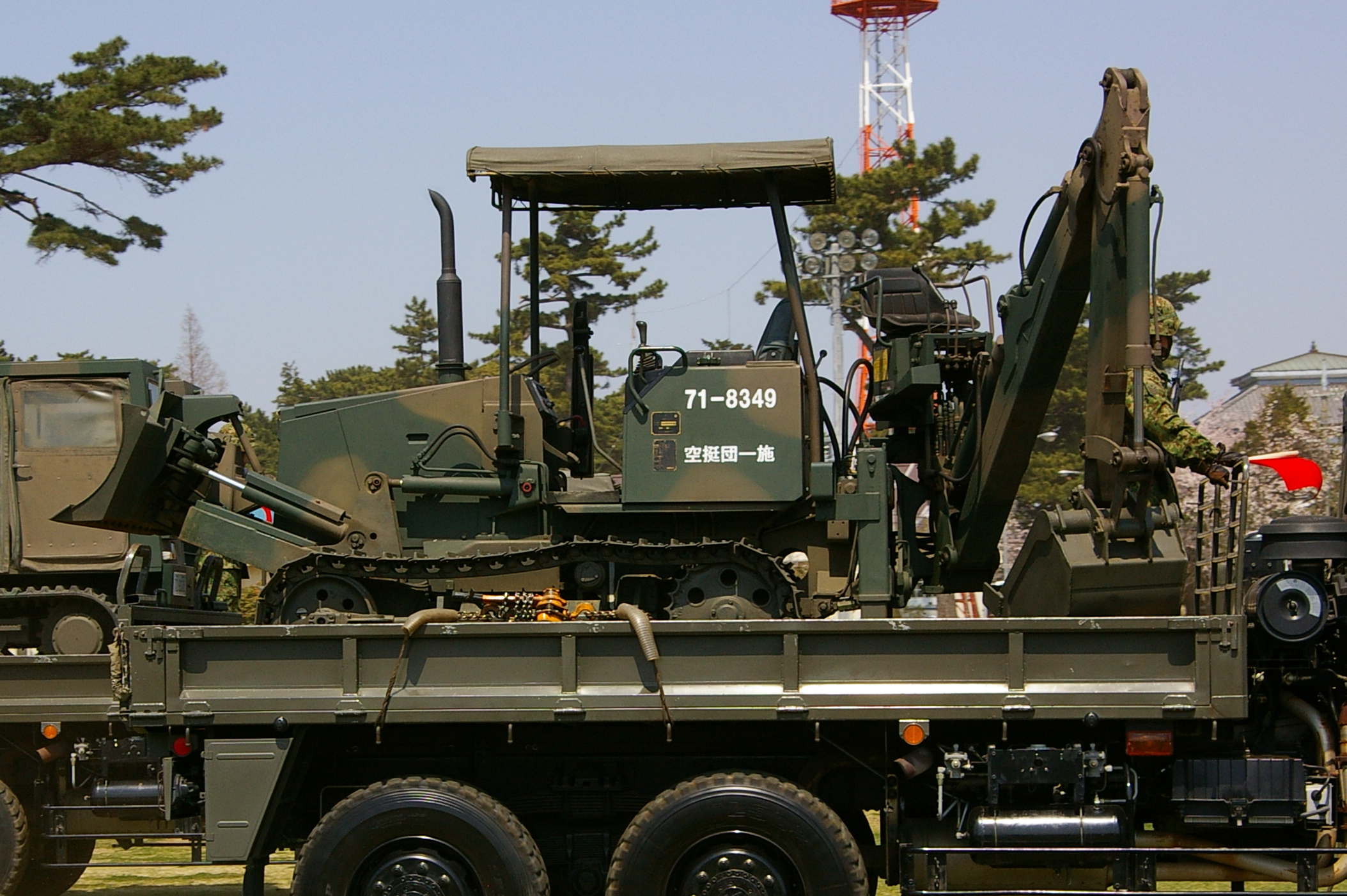 JGSDF Koagata Dozer (small dozer).Taken by Los688,in Camp Narashino,Japan,at 06-Apr-2008.PD-self 陸上自衛隊小型ドーザ。2008年4月6日撮影。習志野駐屯地、第一空挺団。